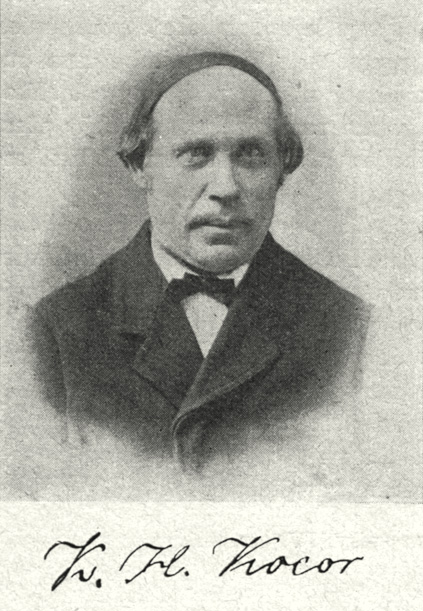 Picture of Sorabian/Wendish composer Korla Awgust Kocor (1822-1904)